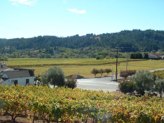 Vineyards in the Dry Creek Valley AVA of Sonoma County, California, in October, 2005. The photo was taken from the parking lot of Teldeschi Winery. On the left is the back side of the Dry Creek General Store, and to the right is the winery facility at Dry Creek Vineyards.